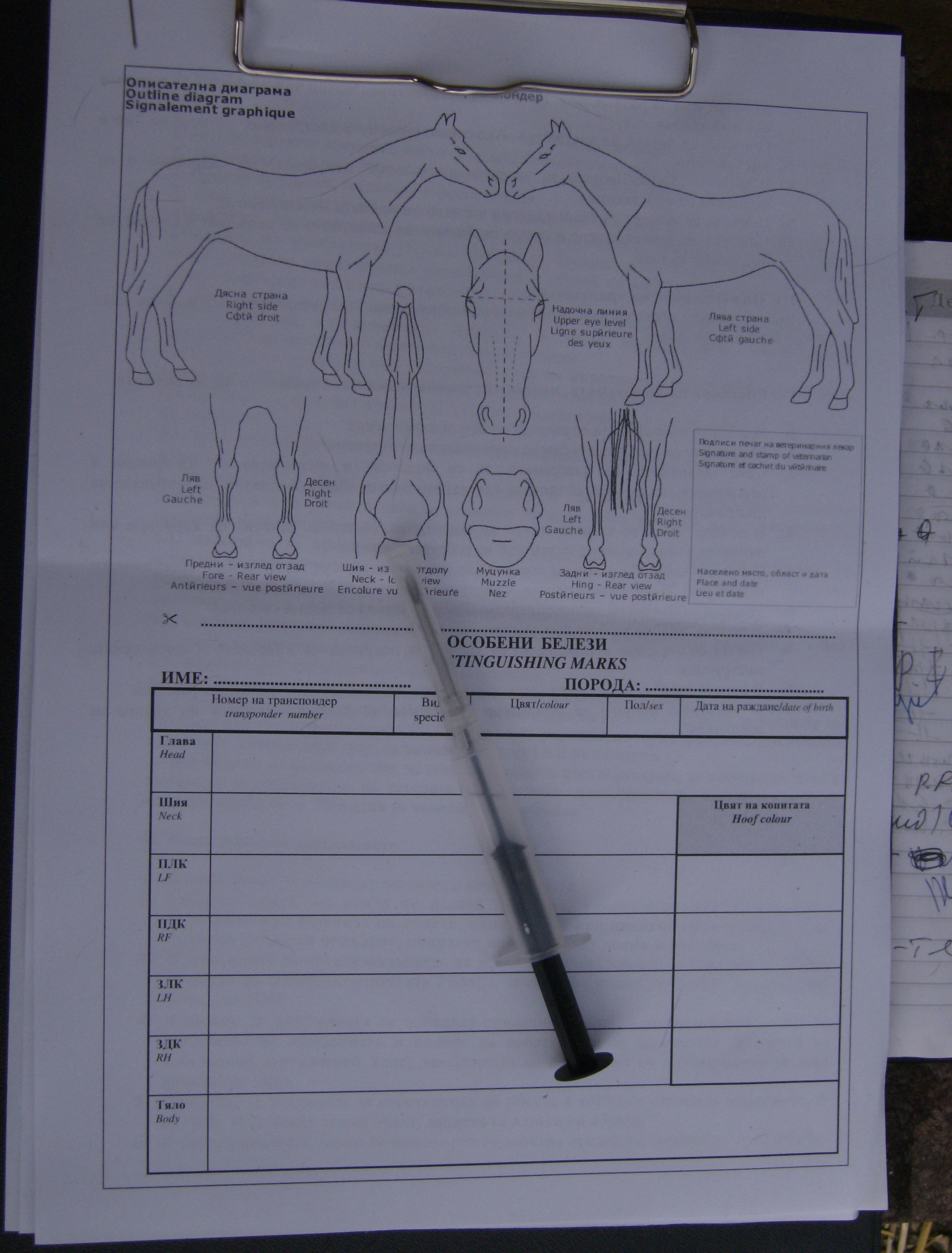 RFID Microchip